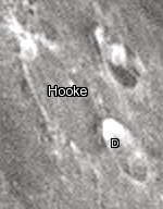 Hooke lunar crater as seen from Earth with satellite craters labeled